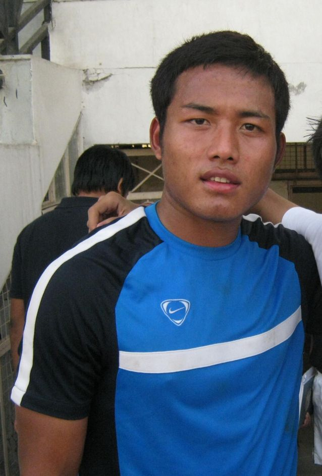 jeje